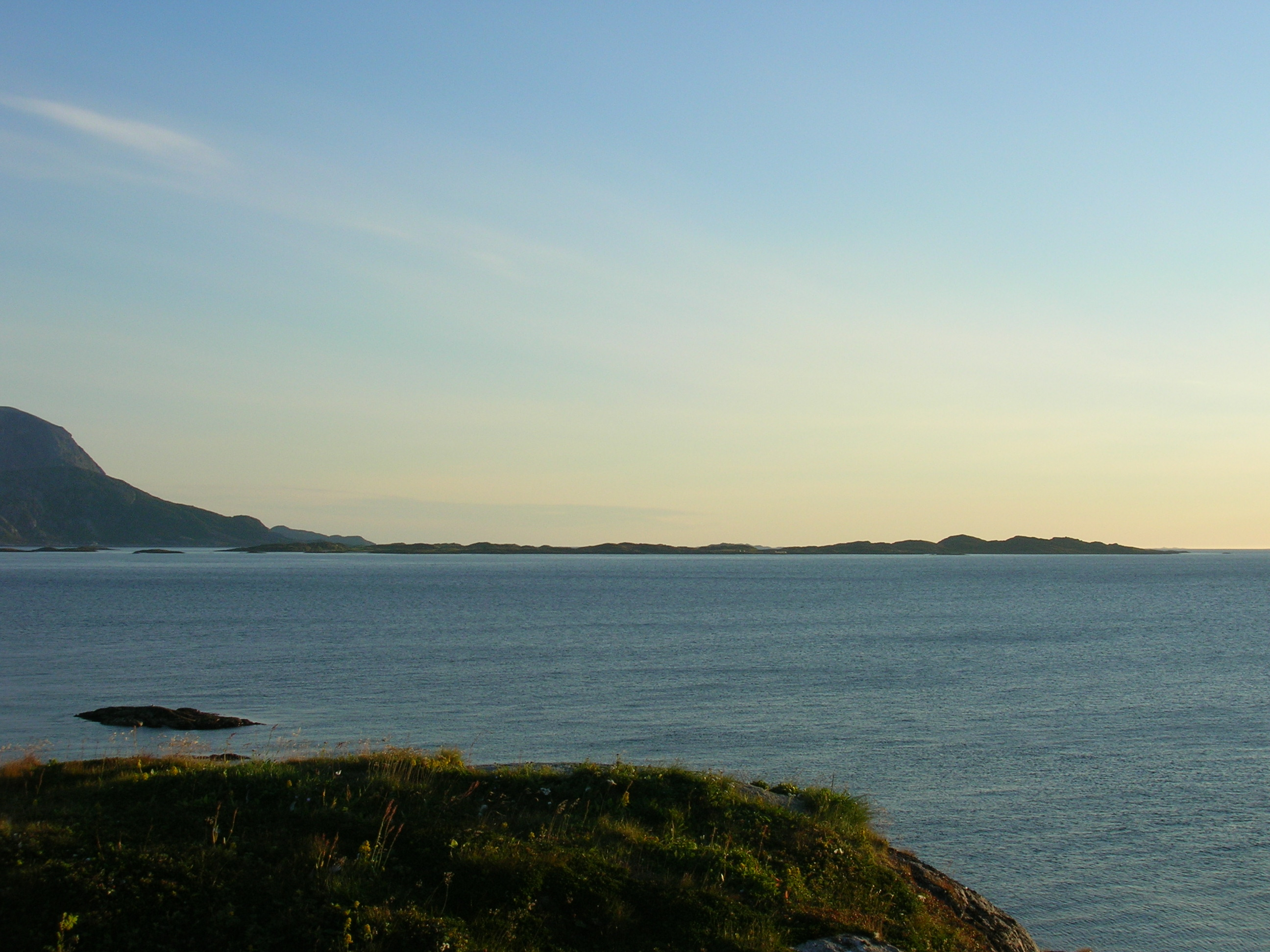 Musvær